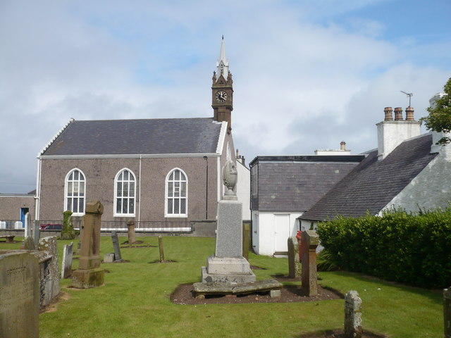 The parish church of Ballantrae Viewed from the graveyard that contains the Kennedy Mausoleum.